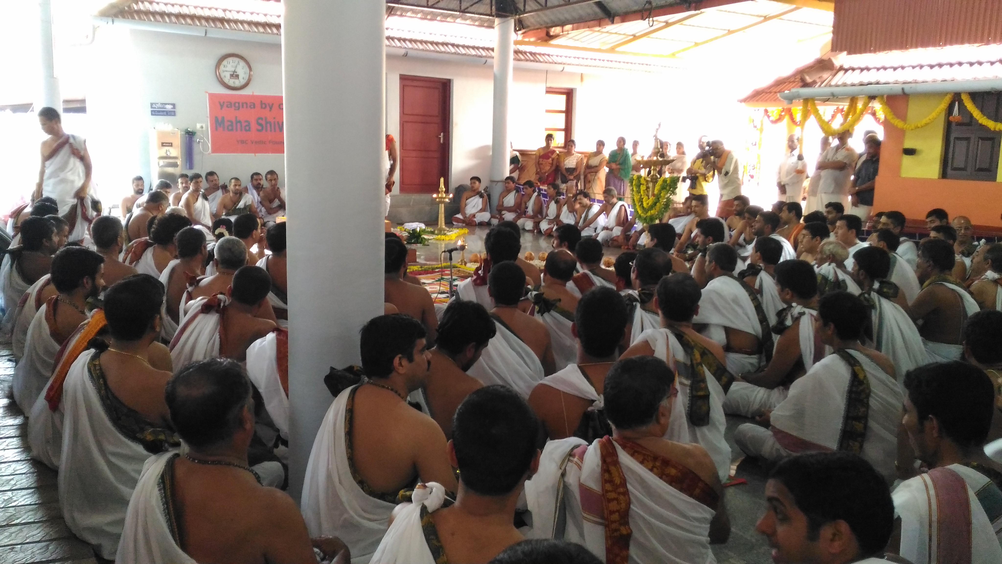 108 poojaris chanting for Maharudrayagam at Poonkavanam temple Hosdurg